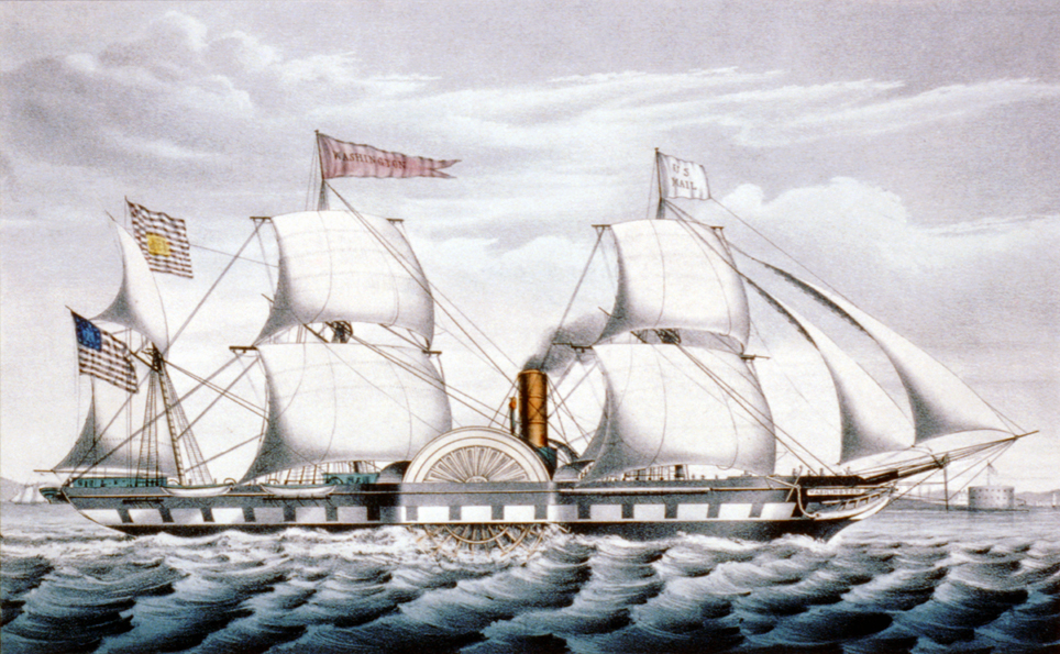 Hand-colored lithograph showing the steamship Washington, built 1847 for the Ocean Steam Navigation Company, passing Castle Williams in New York Harbor.